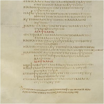 Fragment of folio 100 verso with the text of Psalm 48:12–19 (in the Hebrew numbering, Psalm 49:11–18)